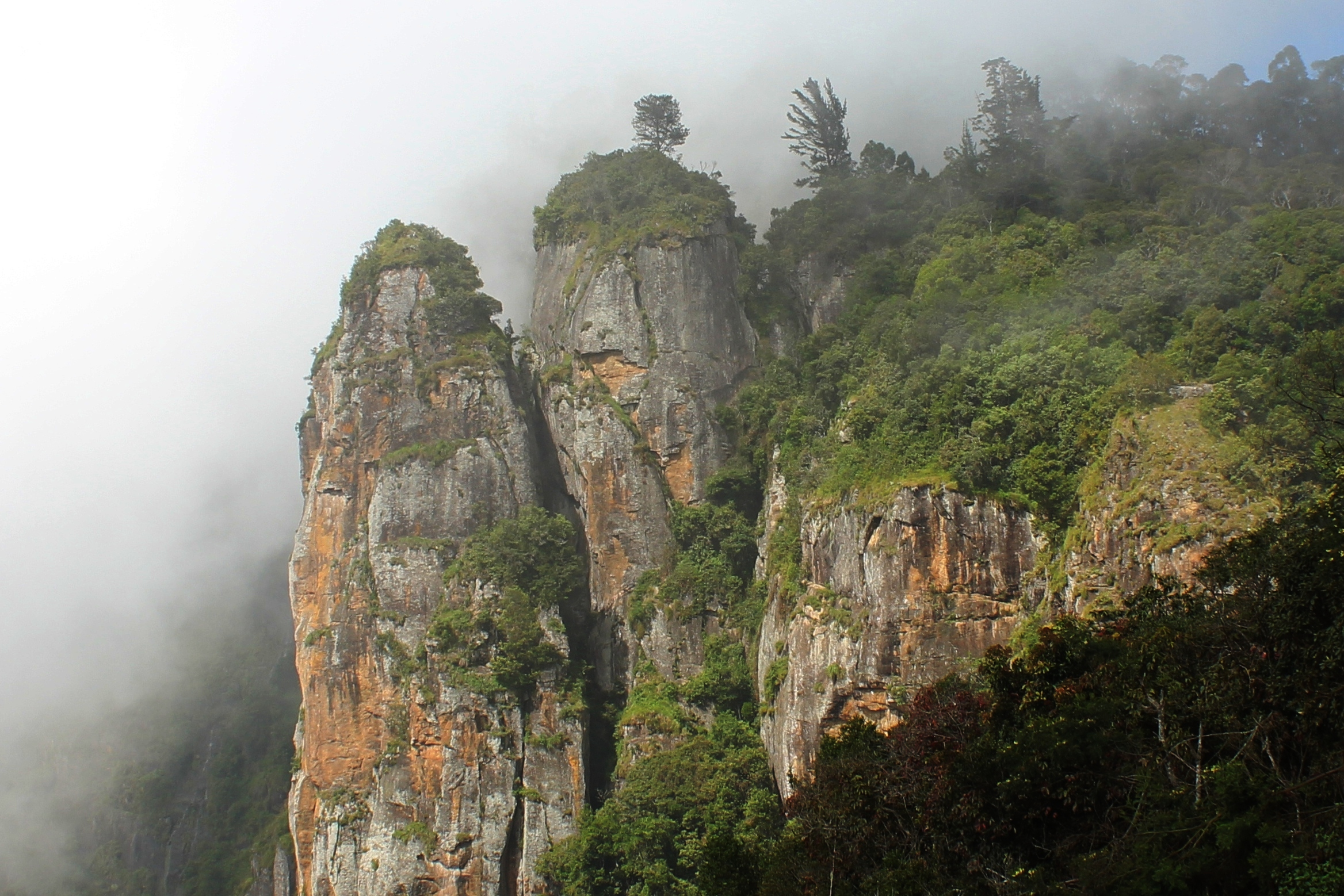 Pillar Rocks in Kodaikanal, coming out of mist